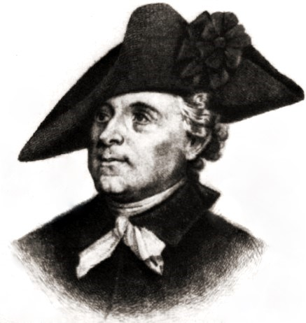 Isaac Huger - Continental Army general, member of the South Carolina House of Representatives, first federal marshal for South Carolina